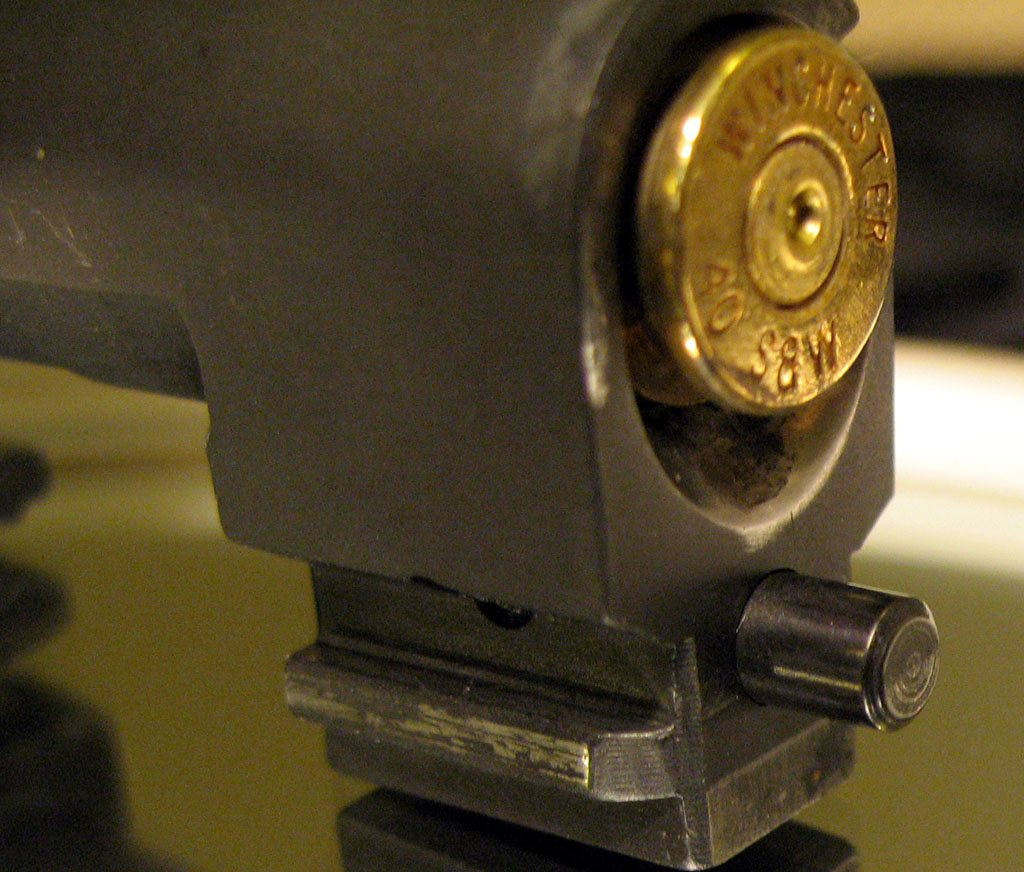 A .40 S&W Beretta 96 barrel breech photograph showing case support for the cartridge at the feed-ramp. The gun has about 4,000 rounds total through it and 150 Winchester Ranger 155gr JHPs since last cleaned. This case was taken from one of those fired bullets. As can be seen, there is a small 1/16th inch area unsupported at the feed ramp. Internally this Winchester, a CBC and a Speer case I examined, all had a cupped/concave web area to move the combustion area forward of the small unsupported area at the feed ramp. No case bulging was found on any case fired in this weapon. If you have reason to suspect your weapon does not fully support the case at the feed ramp, disassemble it and perform this check.